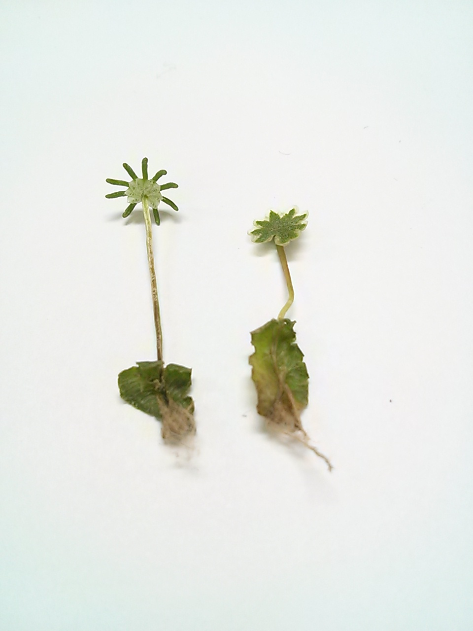 Marchantia, male(left) and female(right)